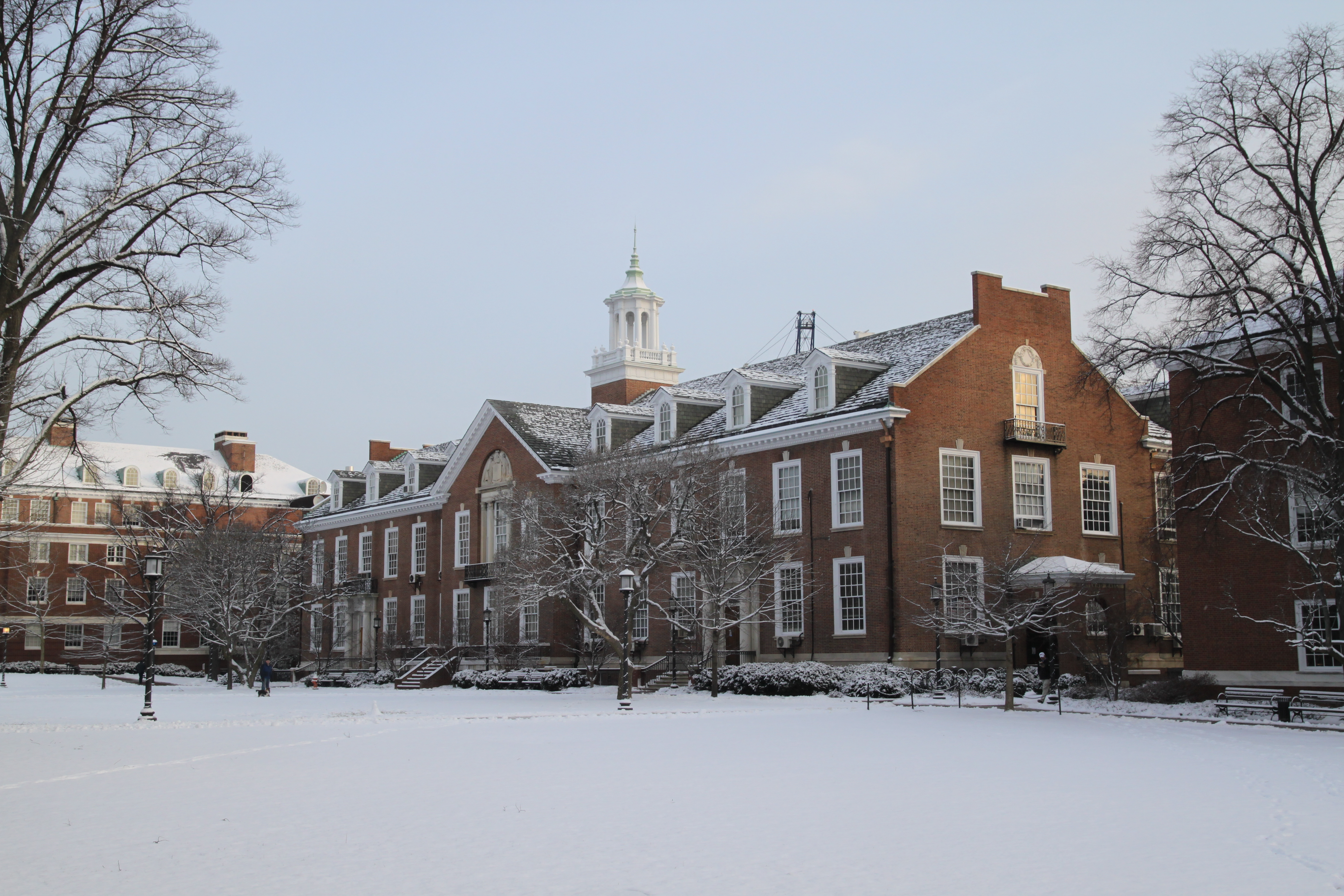 A photo of Maryland Hall in the Wyman Quad of Johns Hopkins University Homewood Campus in Baltimore, Maryland, United States.